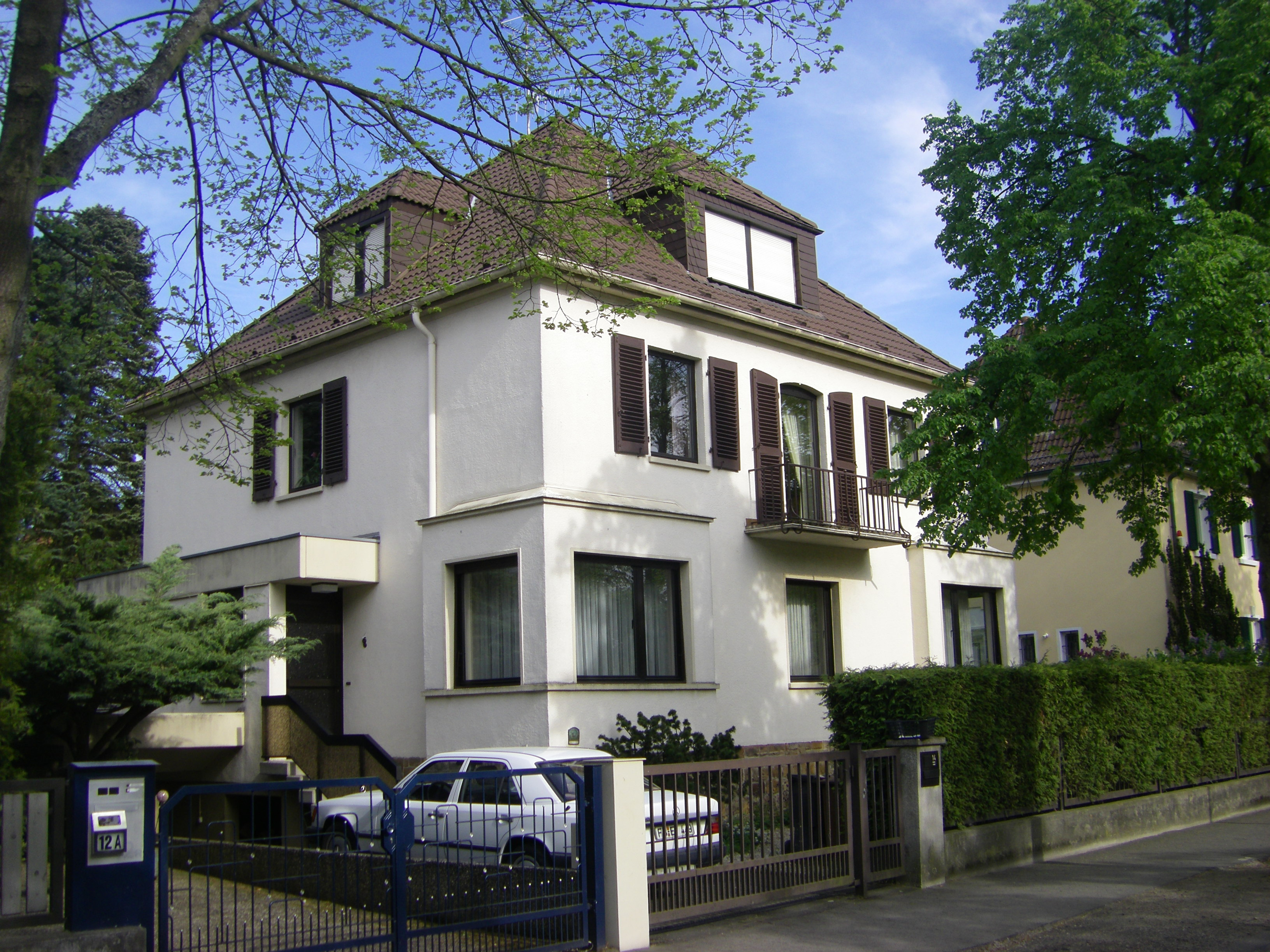 In this house lived Elvis Presley during his army-time in Germany from February 3, 1959 till March 2, 1960.